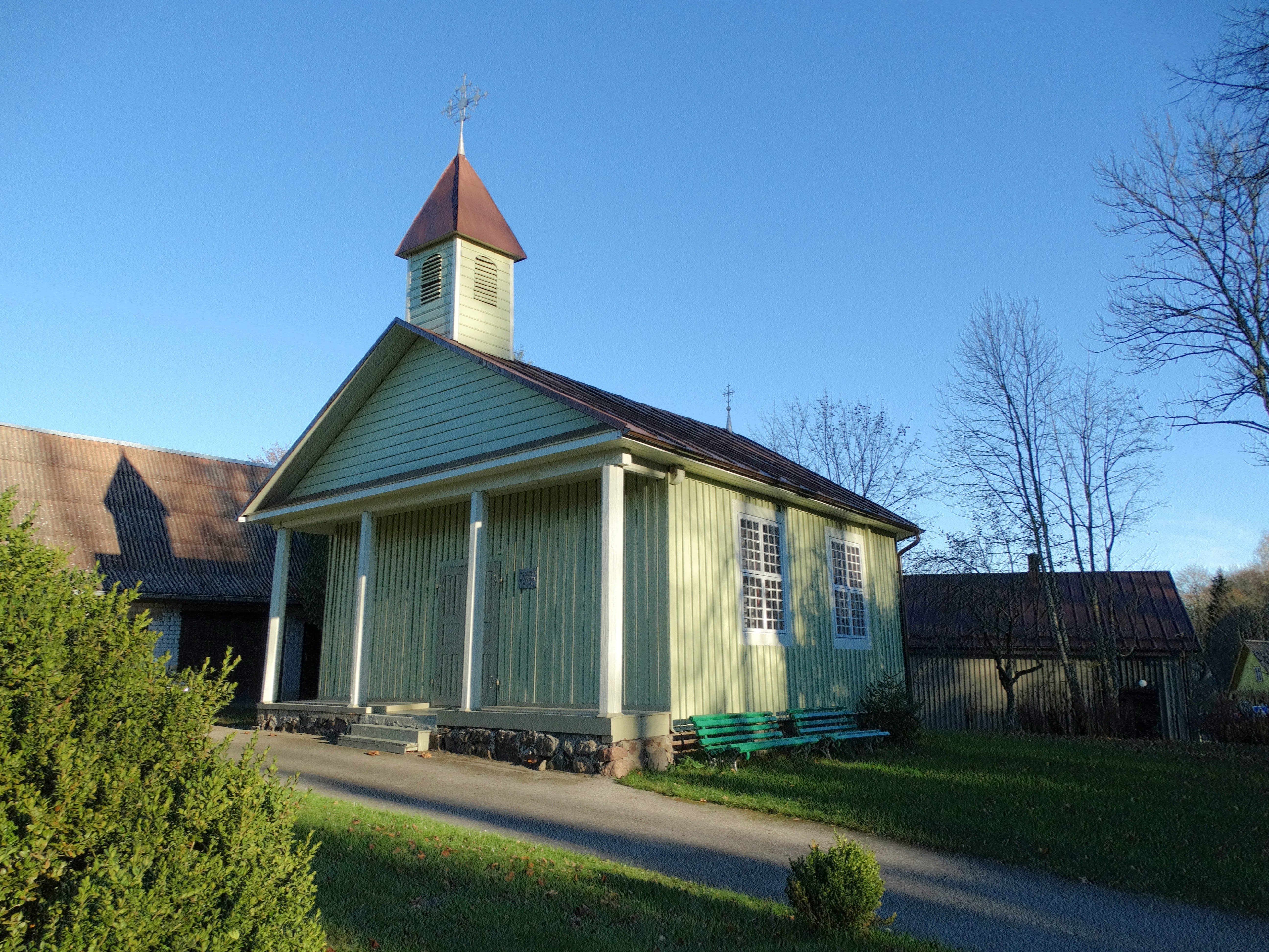 Chapel in Pivašiūnai, Alytus district, Lithuania